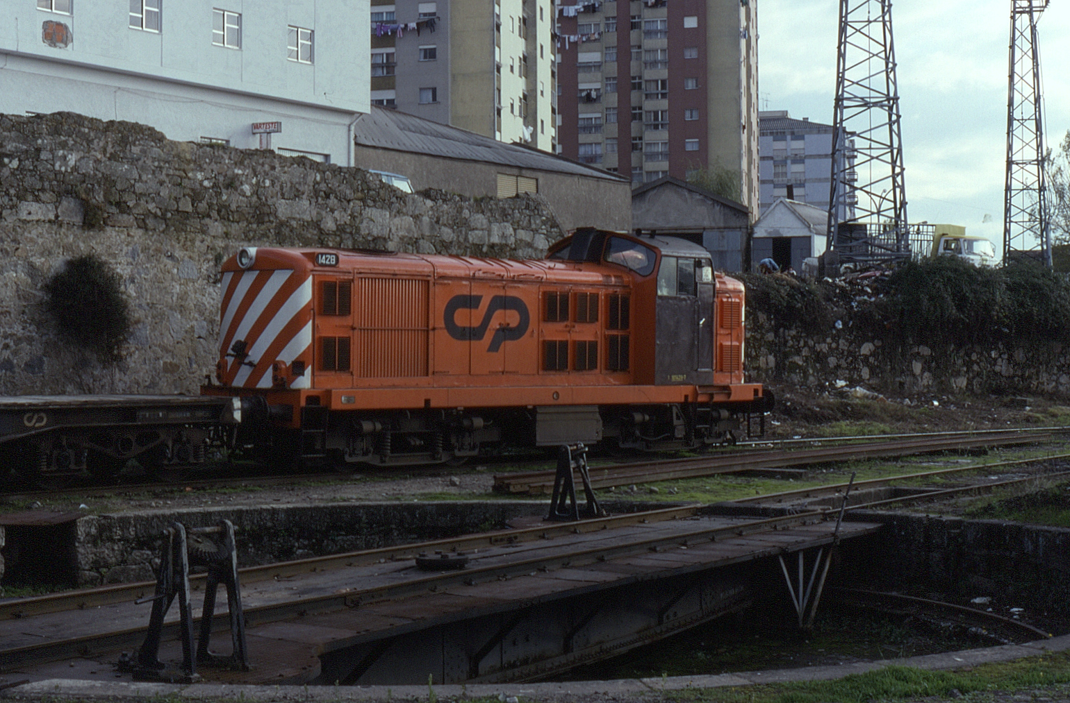 Seen stabled at Braga on 8 November is SOREFAME built class 1401, no. 1428. Fitted with English Electric transmission very similar to those in British Rail class 20s.